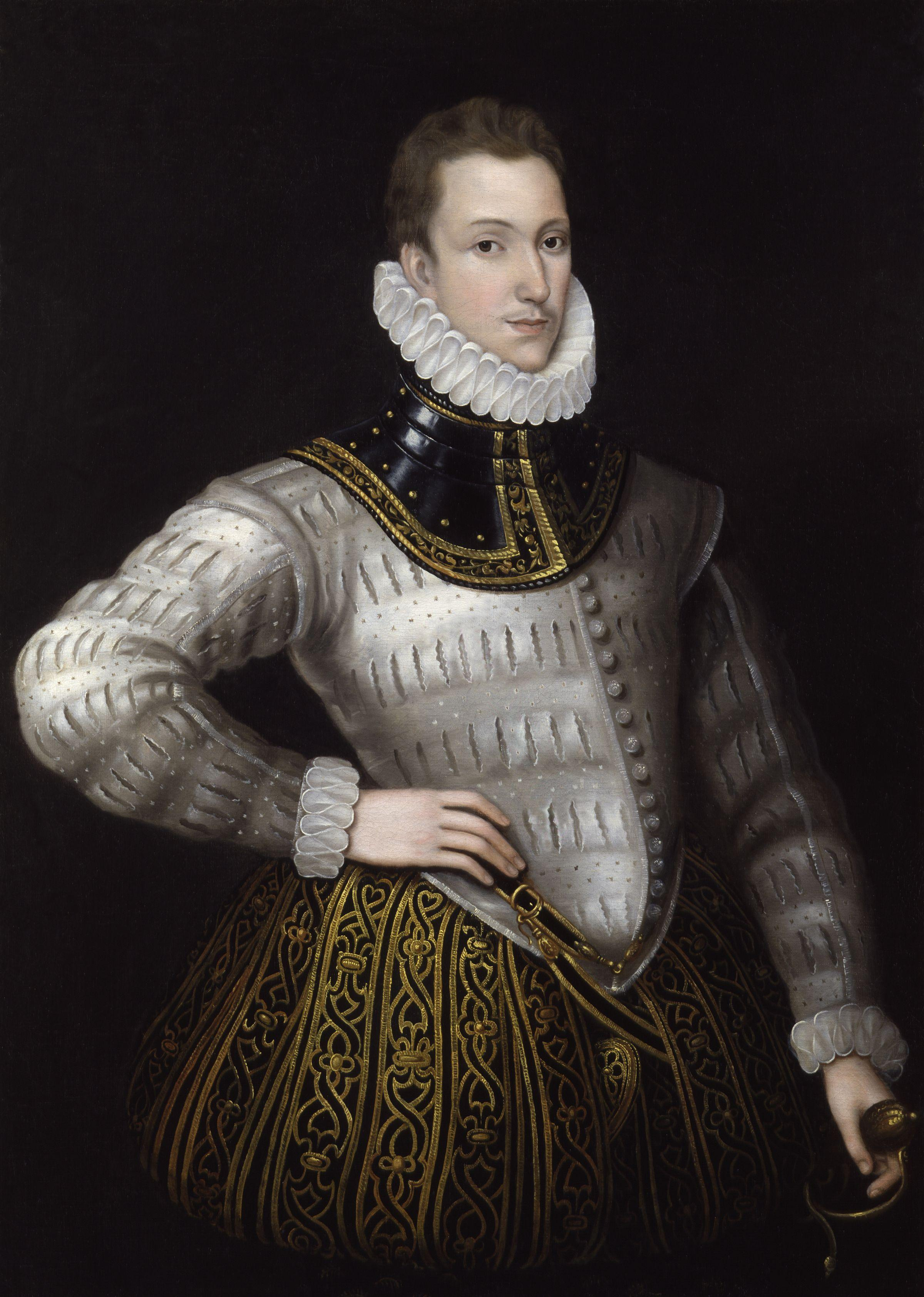 Sir Philip Sidney, by unknown artist, given to the National Portrait Gallery, London in 1925. All images in this batch are listed as "unknown author" by the NPG, who is diligent in researching authors, and was donated to the NPG before 1939 according to their website. 18th century copy of an original c. 1578 (see Strong, "Sidney's Appearance Reconsidered", p. 4)